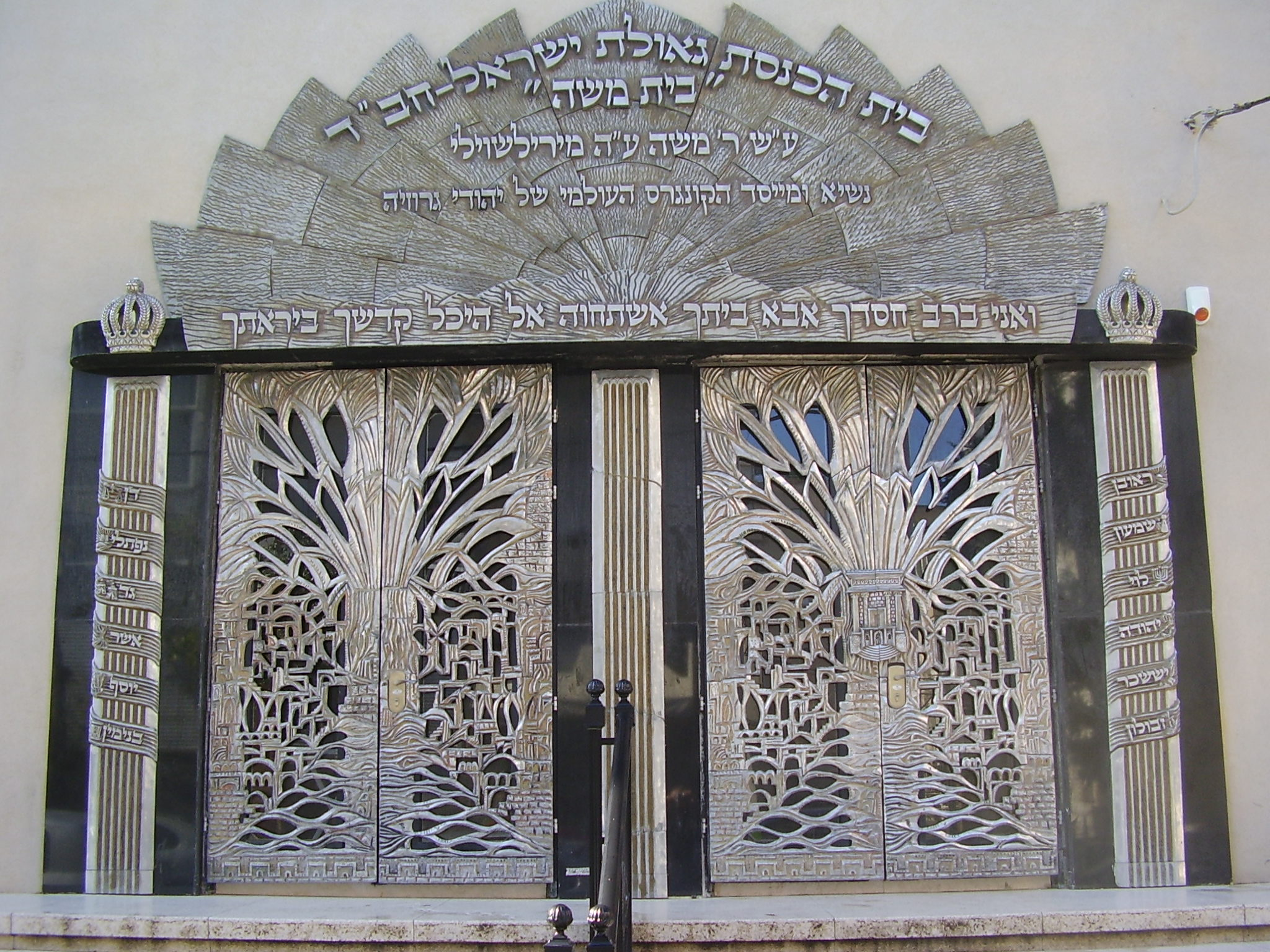 \"geulat israel\" synagogue in tel aviv